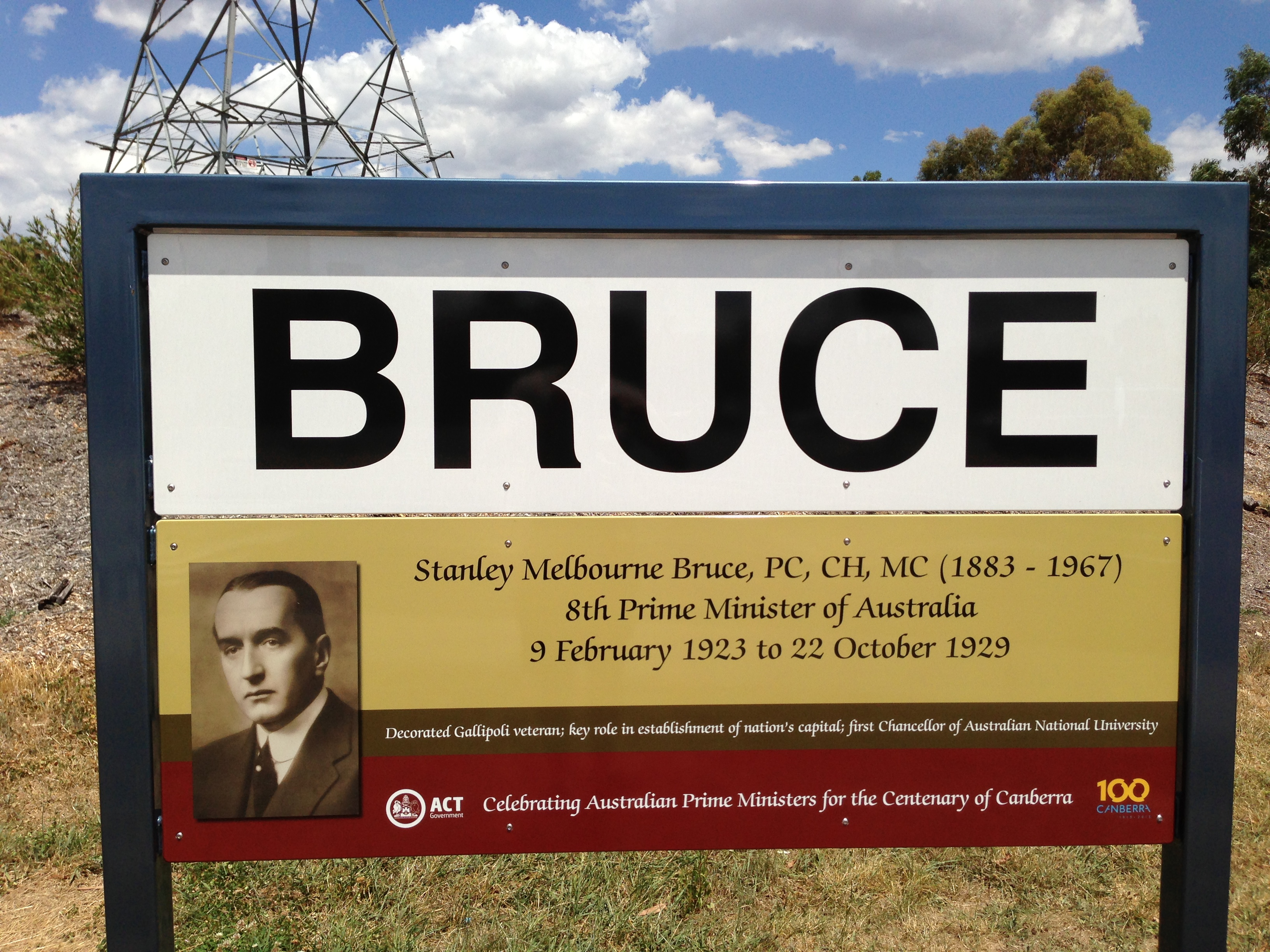 Bruce suburb sign, December 2012